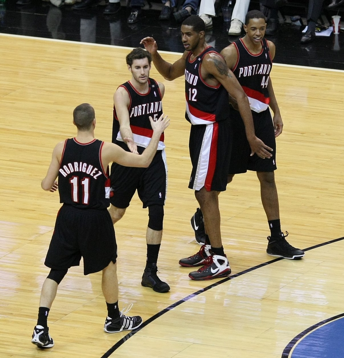 Four members of the Portland Trail Blazers